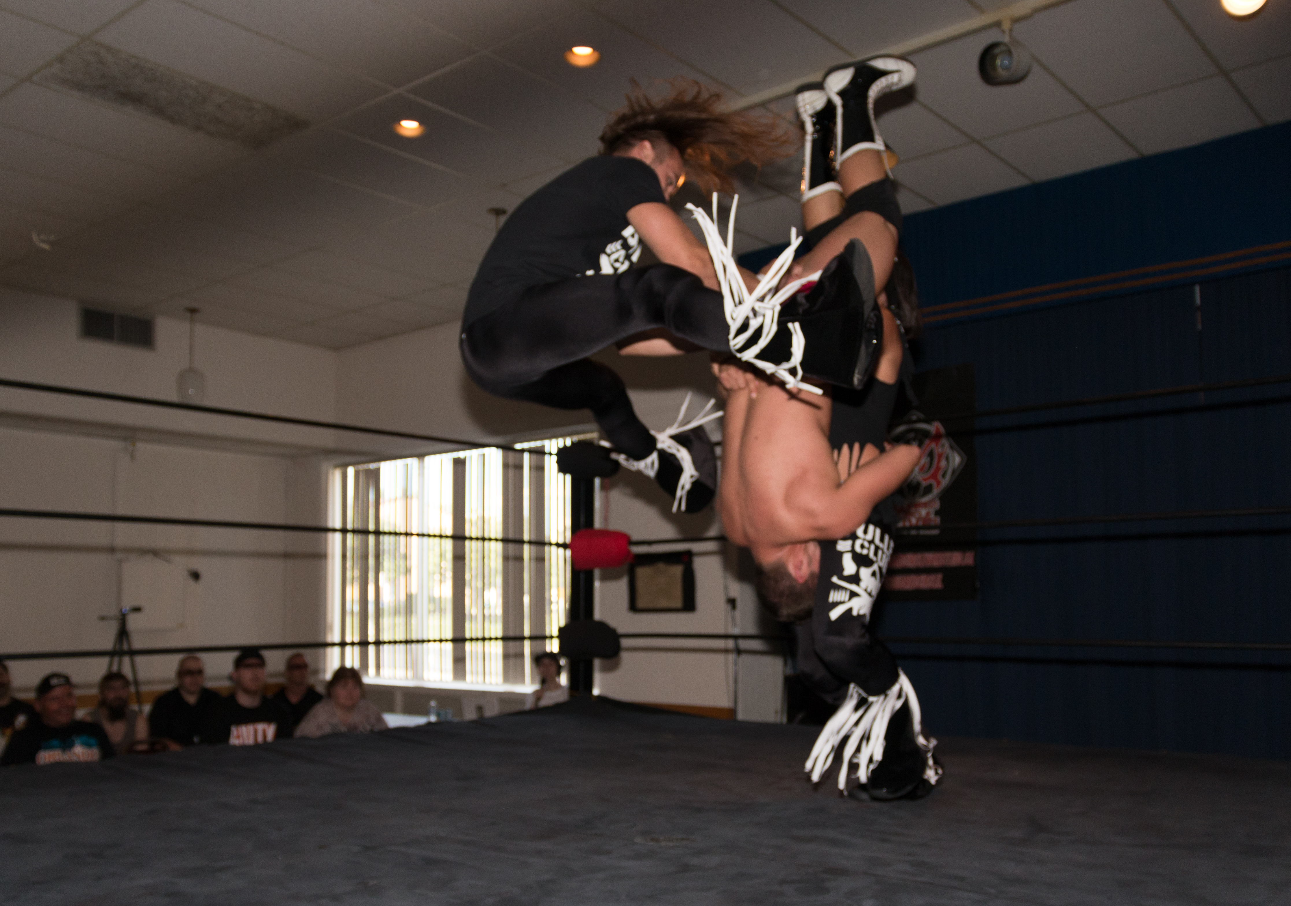 The Young Bucks executing a Meltzer Driver (Springboard somersault spike kneeling reverse piledriver) onto Channing Decker at a Squared Circle Wrestling show in Toronto, ON